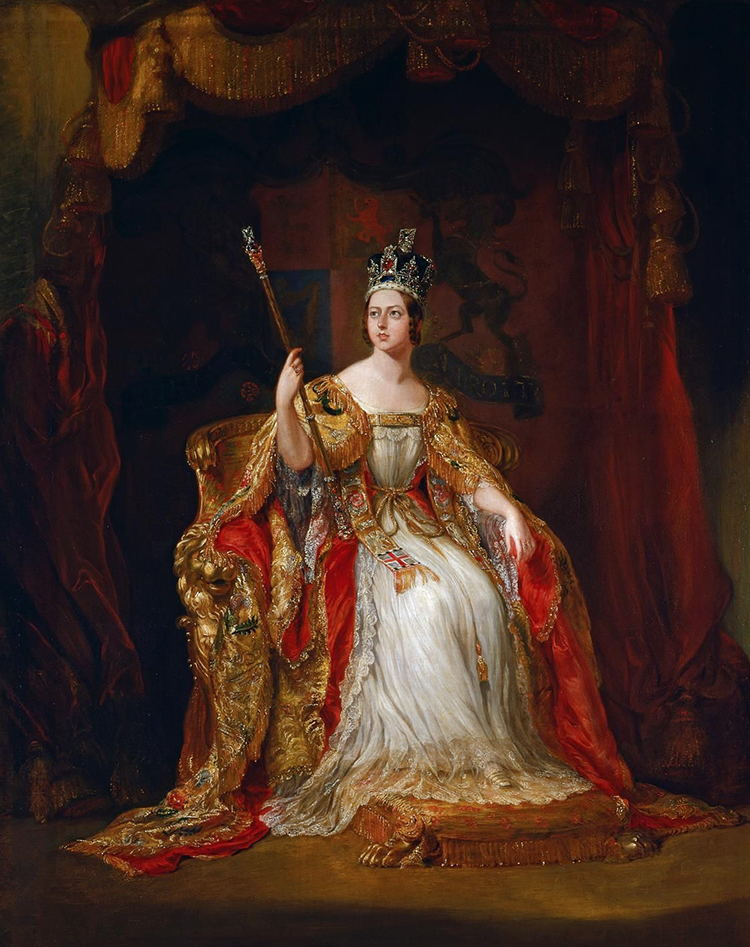 Cropped and untinted version.